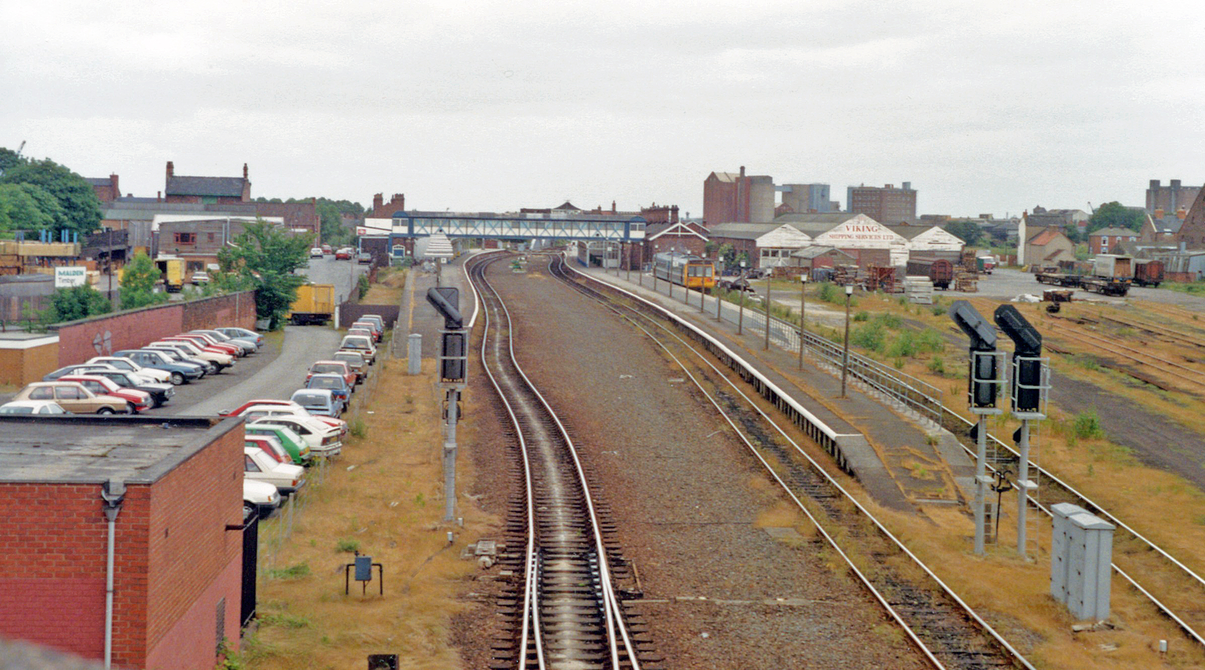 Selby station, 1992. View northward, towards Hull - only, a former ex-NER major junction. (Cf. SE6132 : Selby Station, with Up freight train). Until 9/54 when the line to Market Weighton and Driffield closed, 6/64 when the branch to Goole closed (not to mention the Cawood branch closed in 1/30), since 10/83, when the Selby Deviation on the East Coast Main Line was opened, Selby station completely lost its importance as a junction. Nowadays it is only on the Leeds - Hull route.